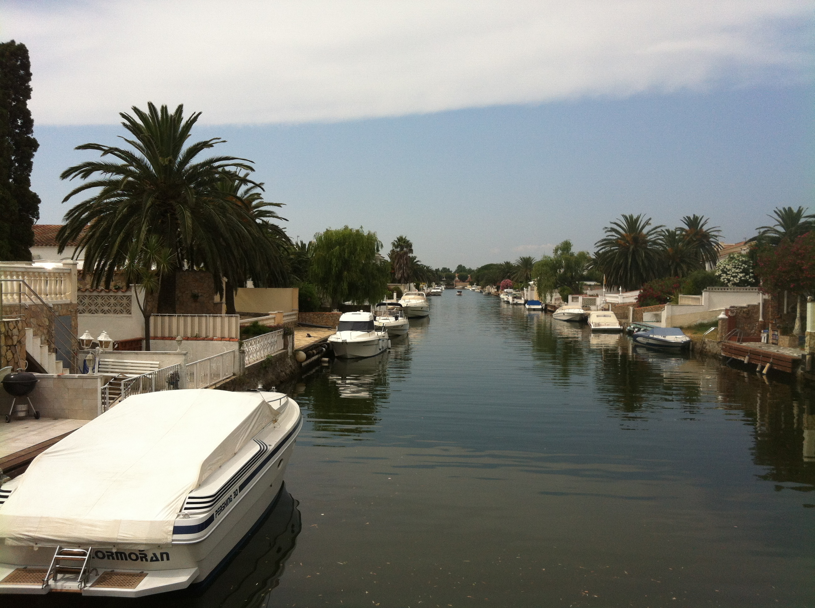 Empuriabrava